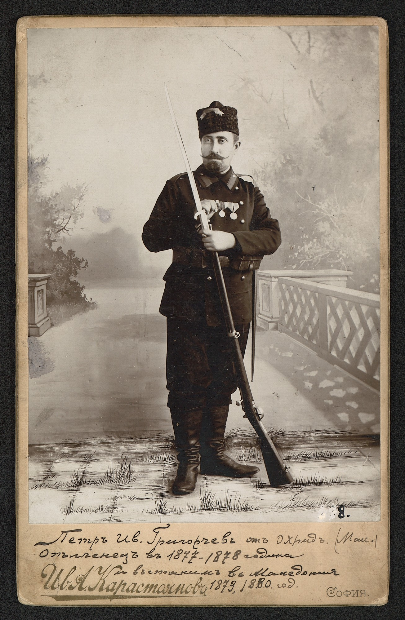 Petar Grigorchev